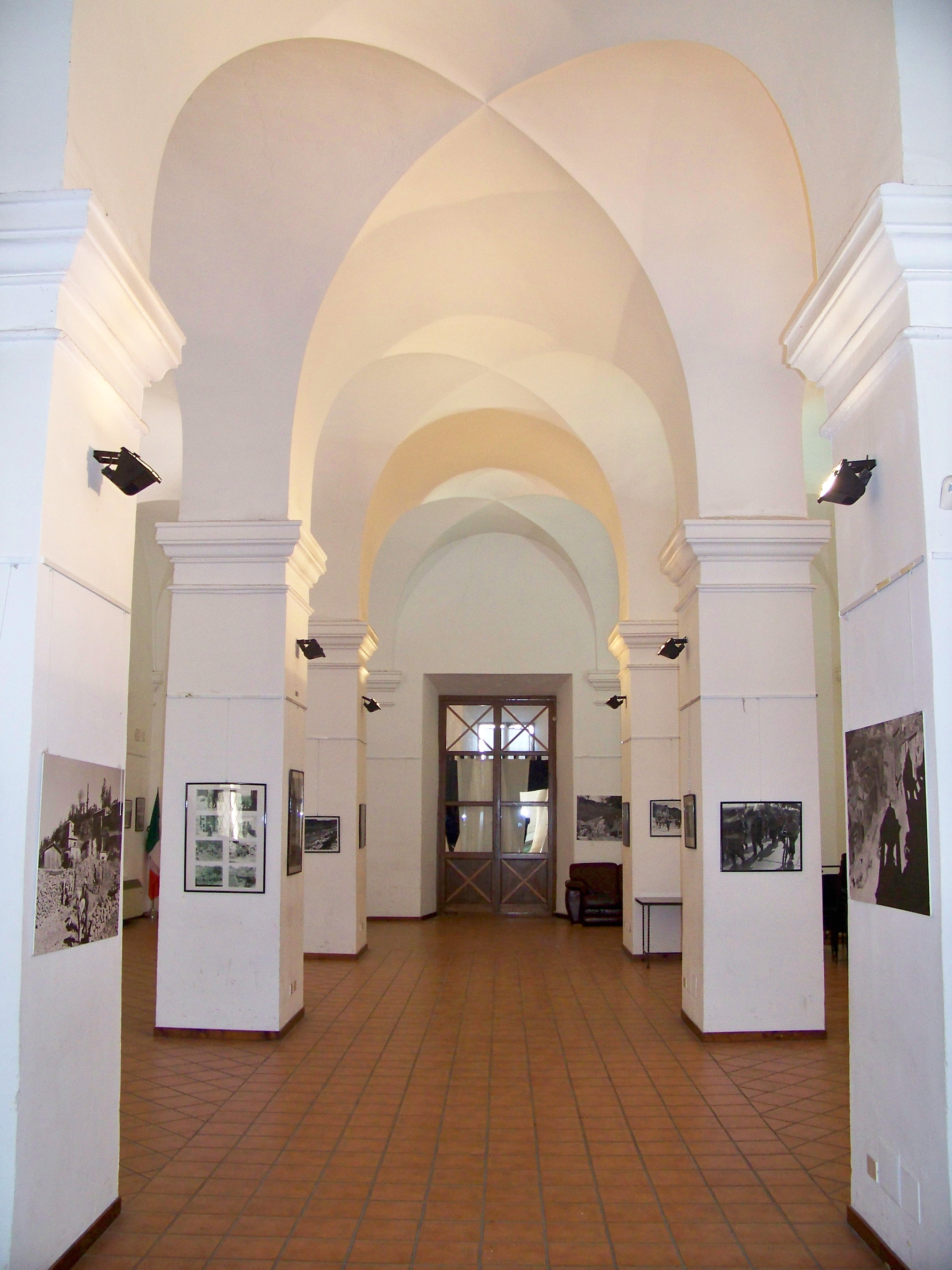 Sala dei Pilastri (Pillars Hall), Palazzo Doria-Pamphilj in Valmontone (Rome)